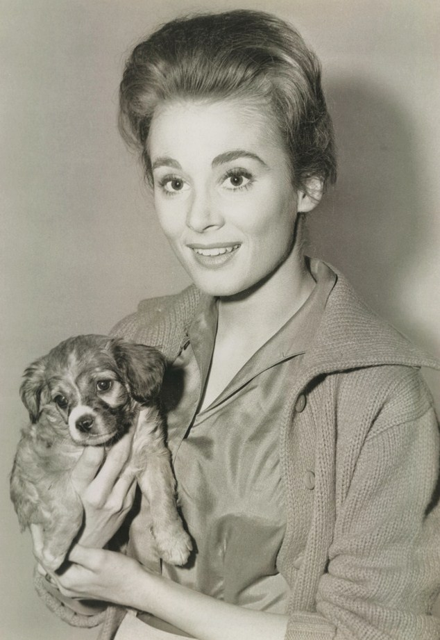 Sandra Church in The Eleventh Hour (1962 TV series) - publicity still (original image cropped : see source)